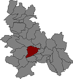 Location of Santa Margarida de Montbui in Anoia